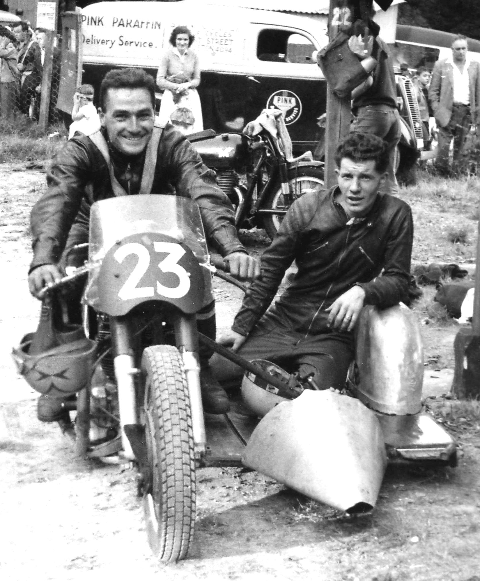 Chris Vincent and unknown passenger pose for the photograph on his 1958 National Championship-winning Norbsa grasstrack sidecar outfit. A Manx Norton powered by a BSA A10 engine. Nortons with BSA engines were known as Norbsa, NorBSA and sometimes Nor-Beesa.